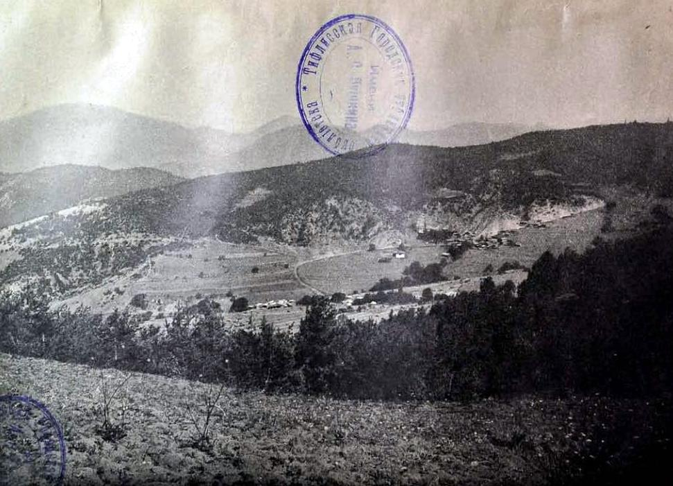 Village Norgisli in the Imerkhevi valley. From Nicholas Marr's dairy of his travels to Shavsheti and Klarjeti (1911).